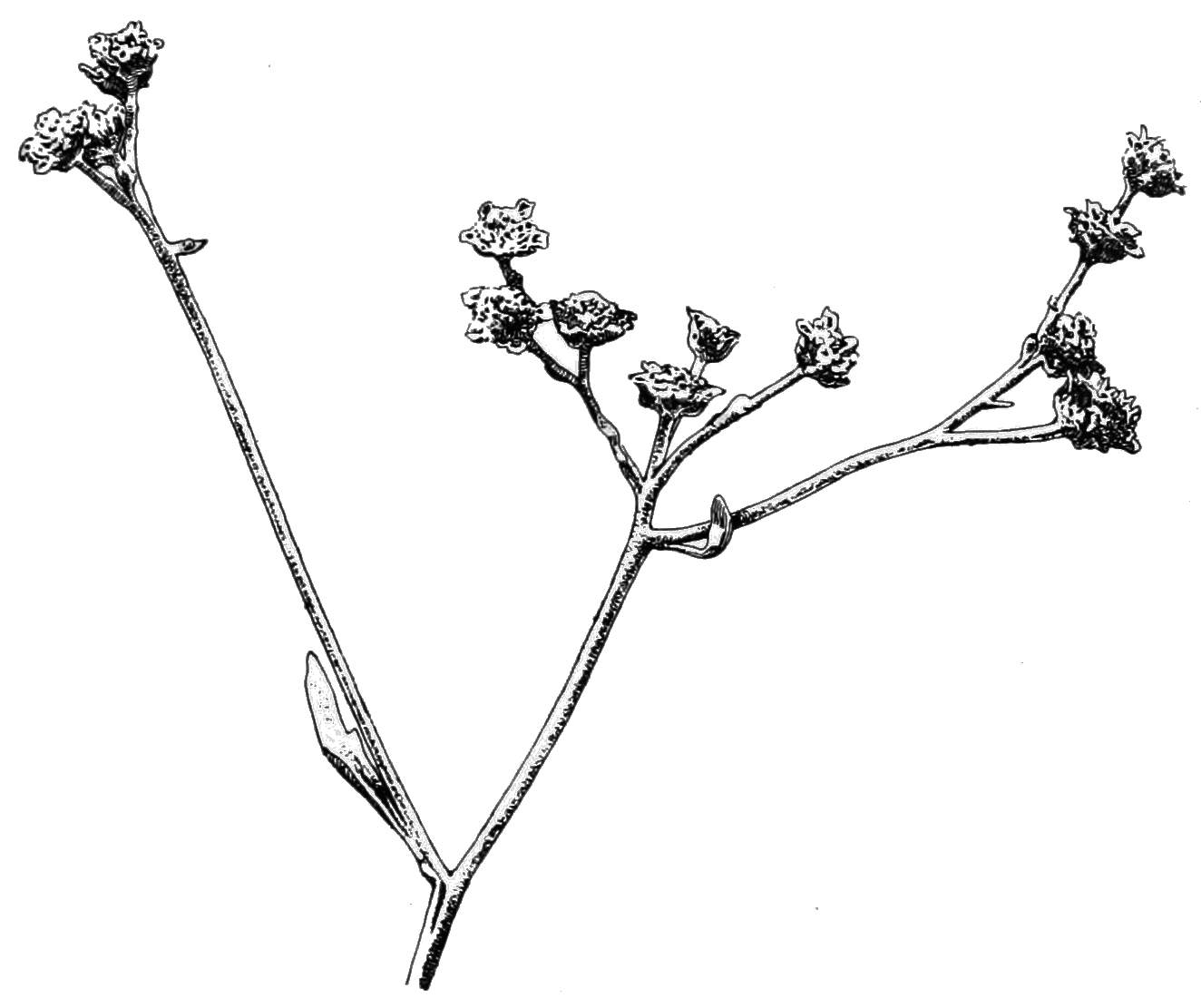 Flowers of the guayule